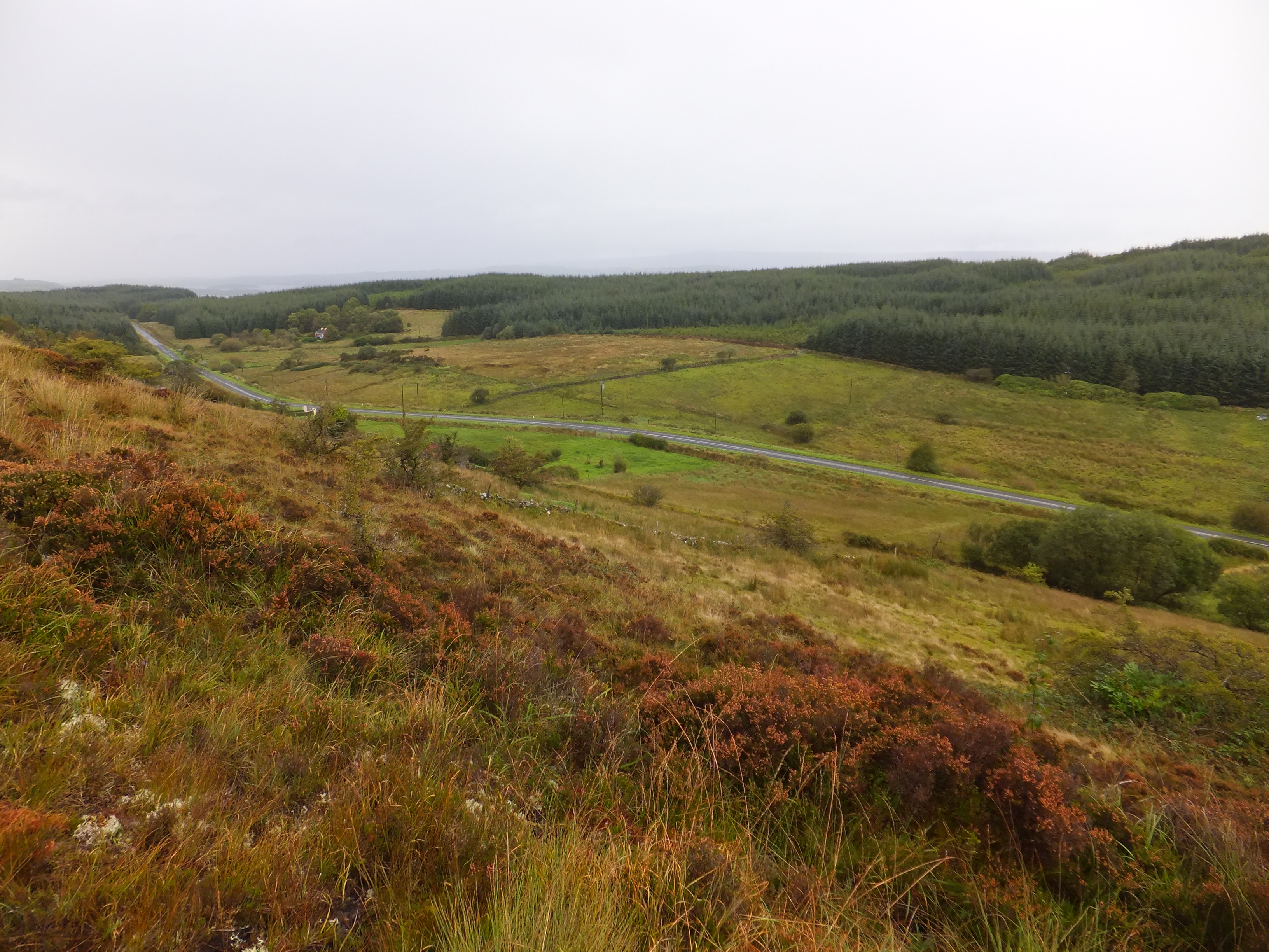 View down into the Curlew pass from the Irish positions on the English left; looking north